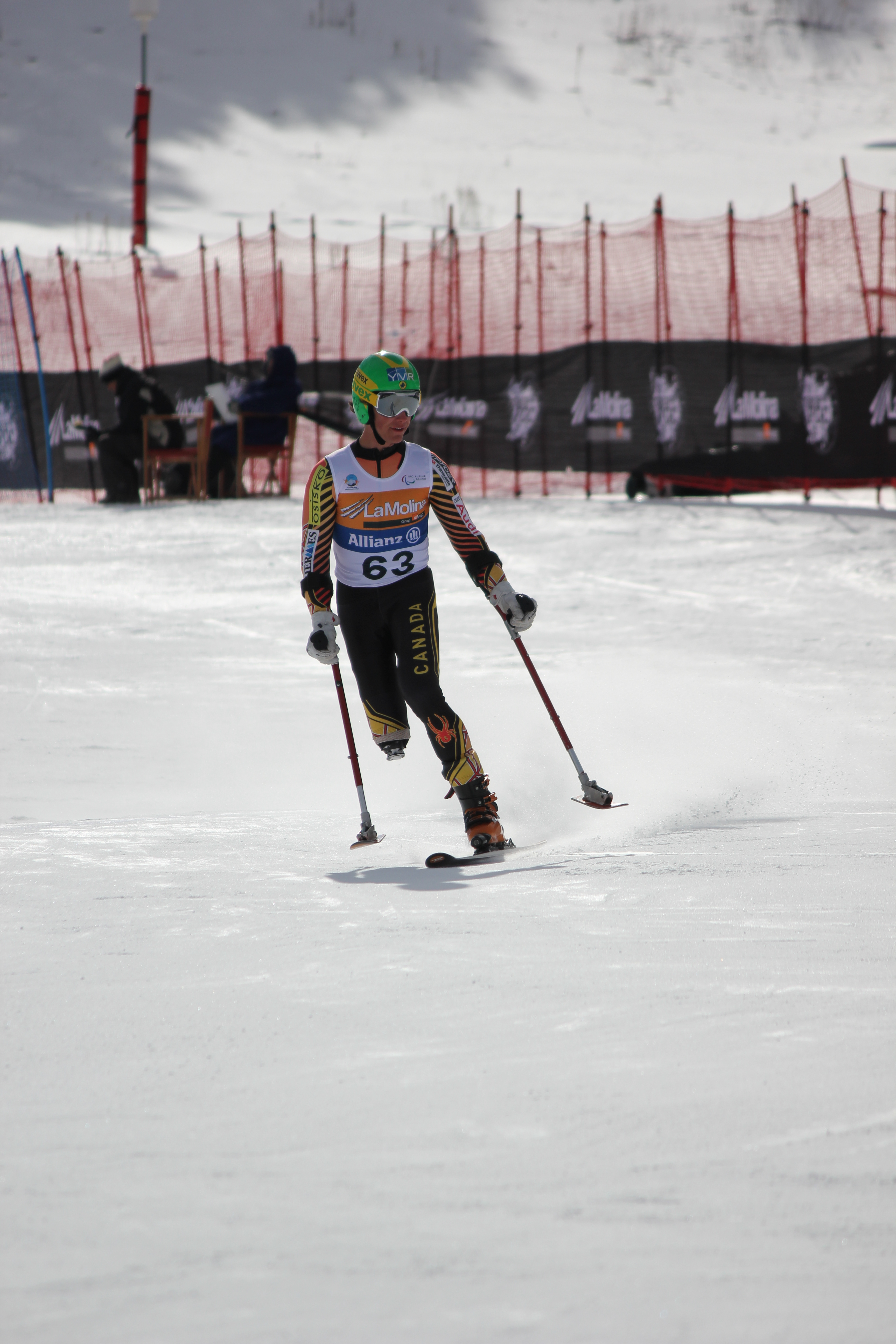 2013 IPC Alpine World Championships in La Molina, Spain on Super combined competition day for the first run in the men's standing event. Braydon Luscombe of Canada Super Combined 1